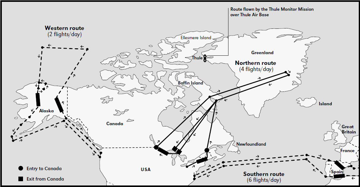 Overview of daily B-52 airborne alert flights conducted under Operation Chrome Dome.